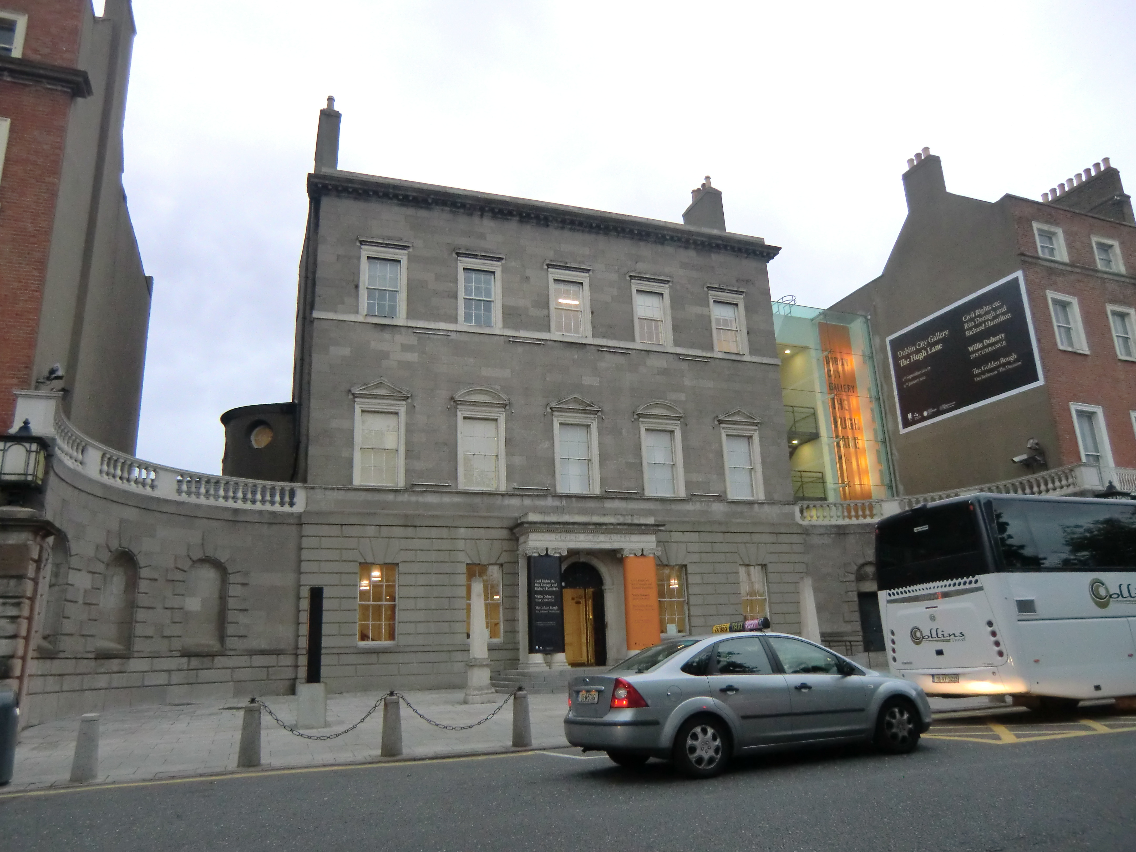 Dublin City Gallery The Hugh Lane (photo taken during Dublin Culture Night, September 2011)